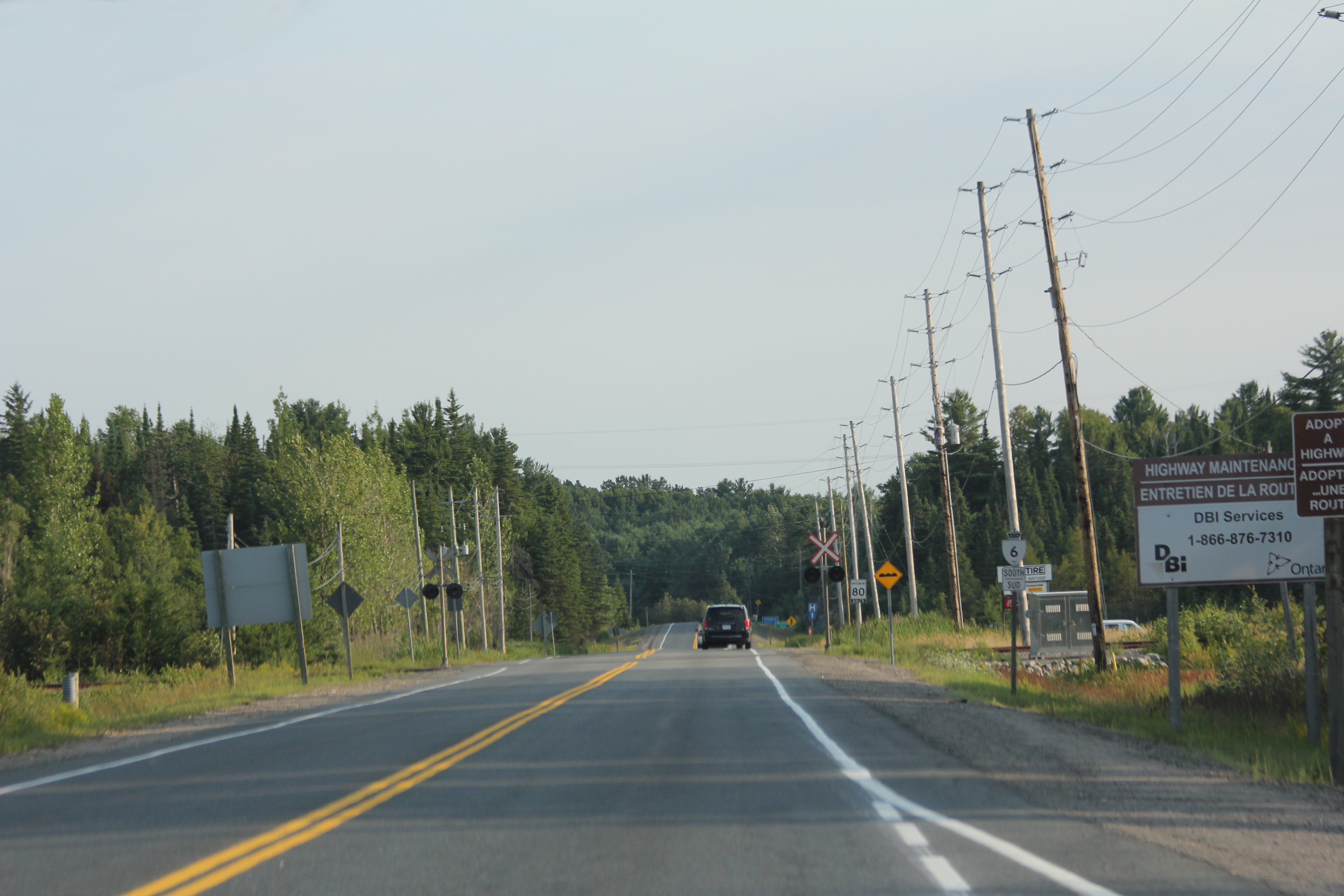 Looking south from the northern terminus of Ontario Highway 6. In Baldwin, looking toward Espanola, in Ontario, Canada.